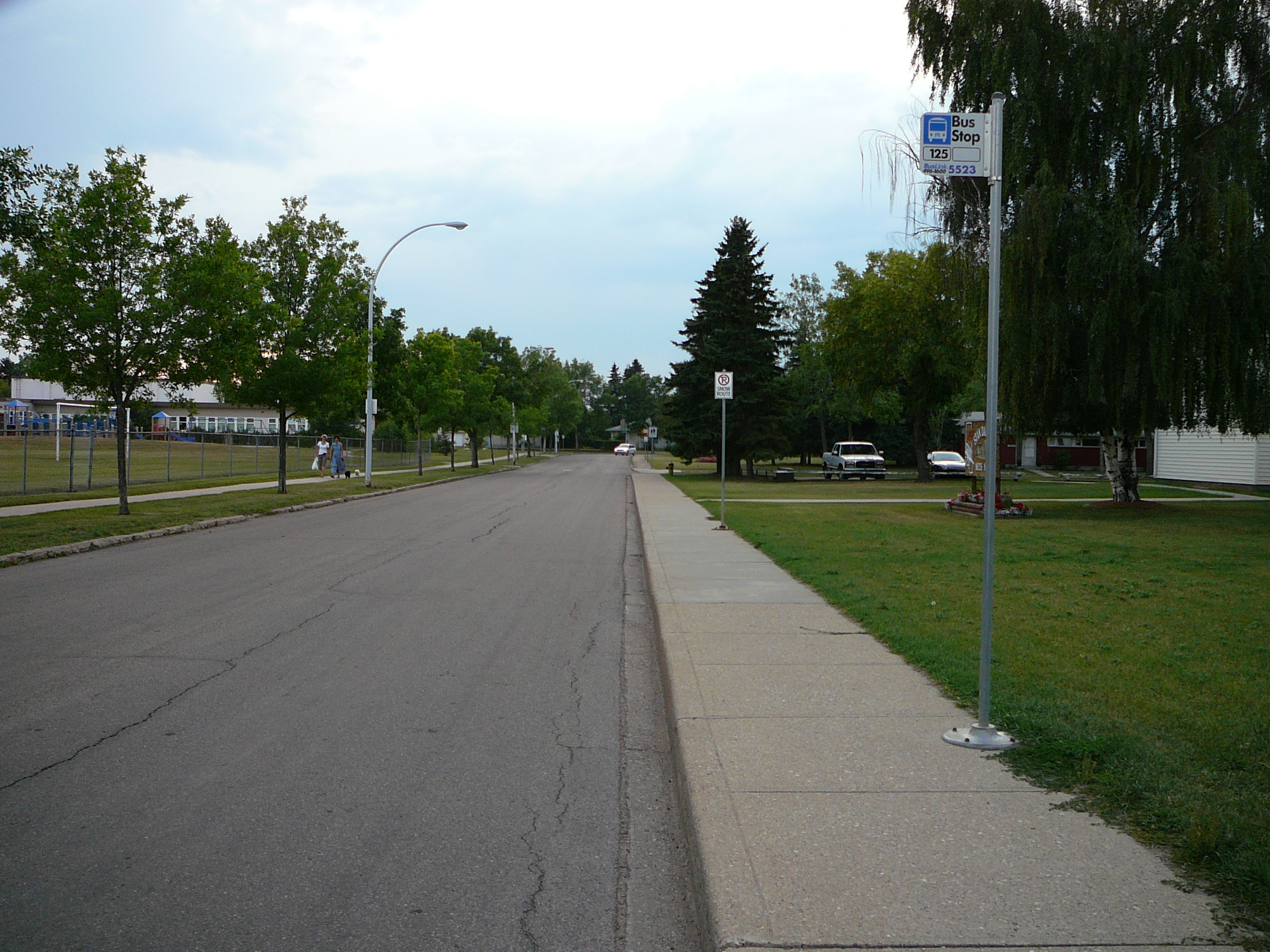 190A Avenue NW in Edmonton, Canada, neighbourhood of North Glenora. Facing west.